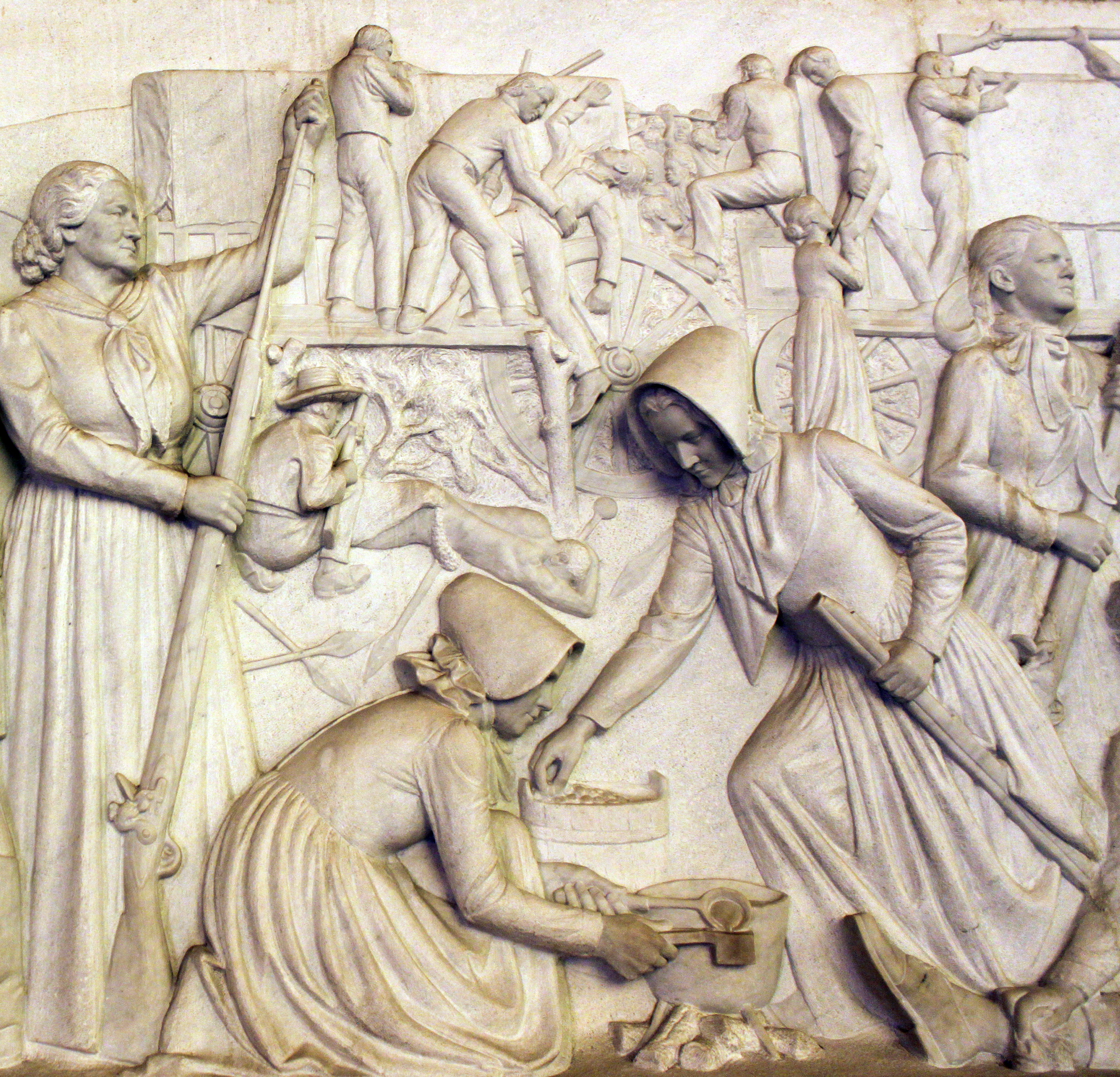 Marble relief of the Voortrekker Monument on the history of the Boers during the Great Trek.